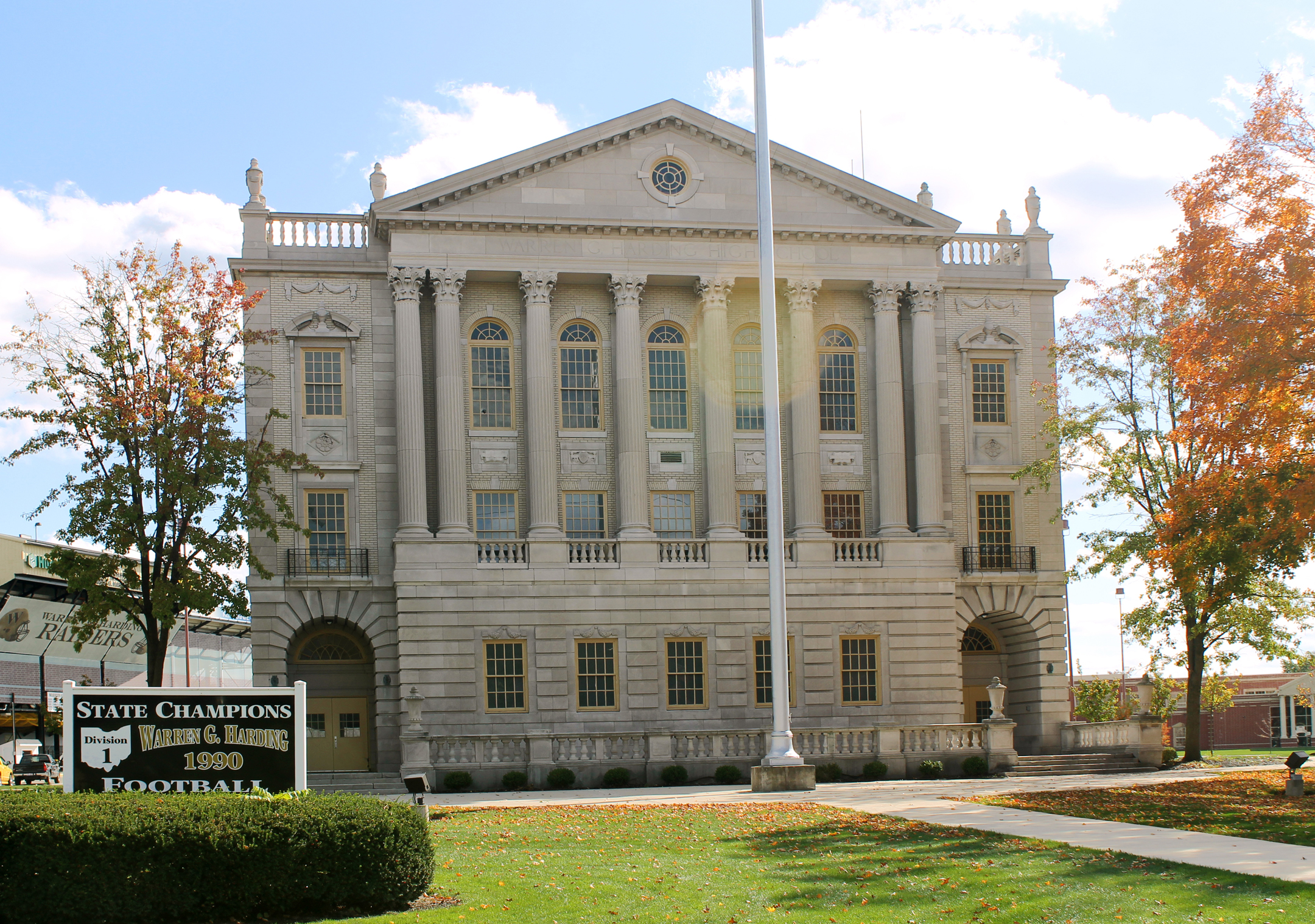 Warren G. Harding High School is a public high school located in Warren, Ohio. Here is the remnant of the historic facade of the old building. The new building (open in 2009--I believe) can be seen to the right, and the revamped football stadium to the left.